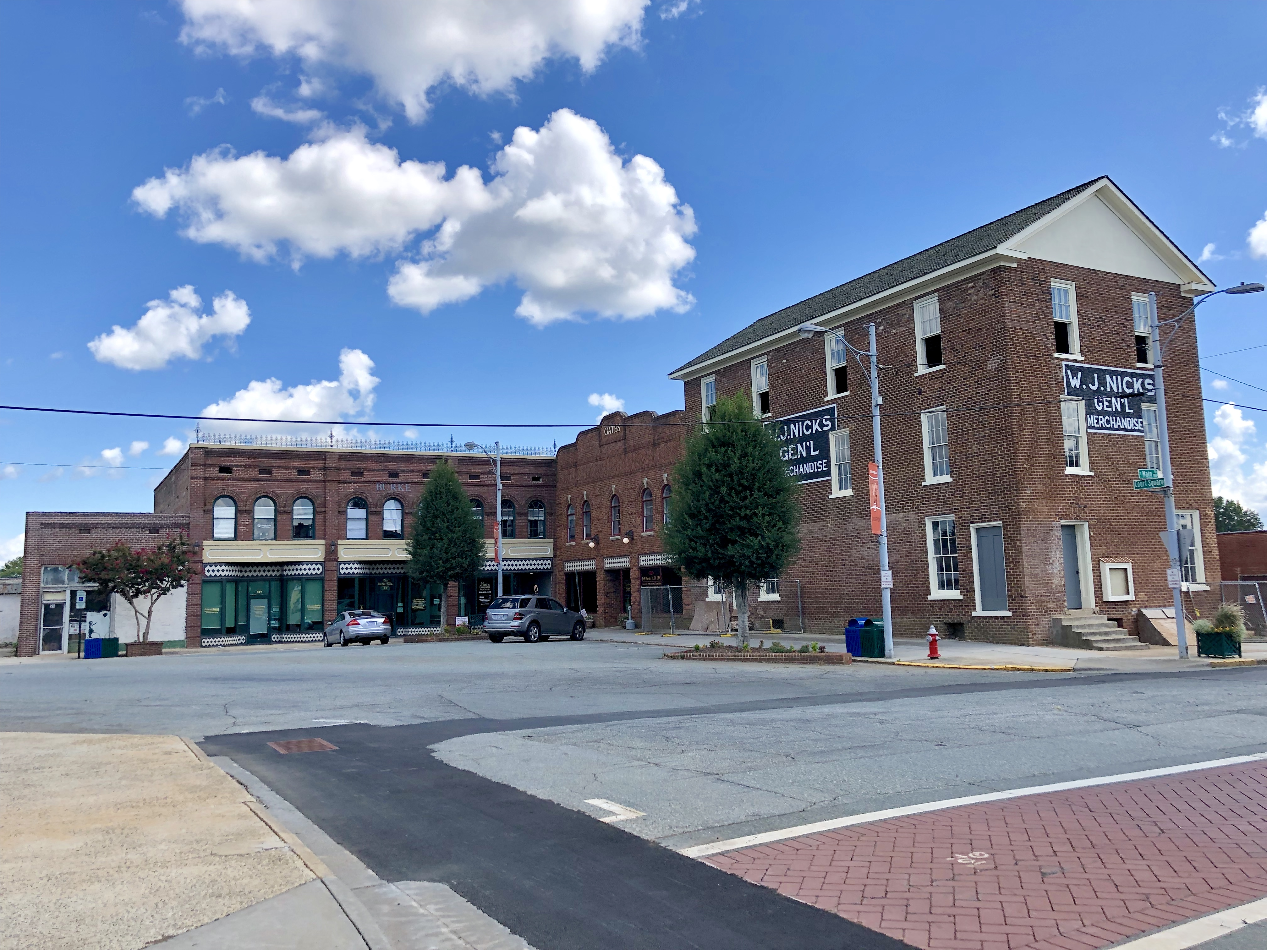 This is the SW corner of Court Square in the downtown business district of Graham, North Carolina, as seen from the Alamance County Courthouse. Visible are the Nicks Store, Burke Building, and Gates Building. The buildings in this photo are contributing structures in the Graham Historic District, listed on the National Register of Historic Places in 1983.